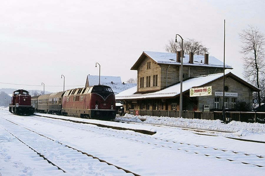 Railwaystation Hersbruck(links Pegnitz), 1977-01-13. Main line diesel 221 124-1 with train number N5507 near switcher 290 358-1.